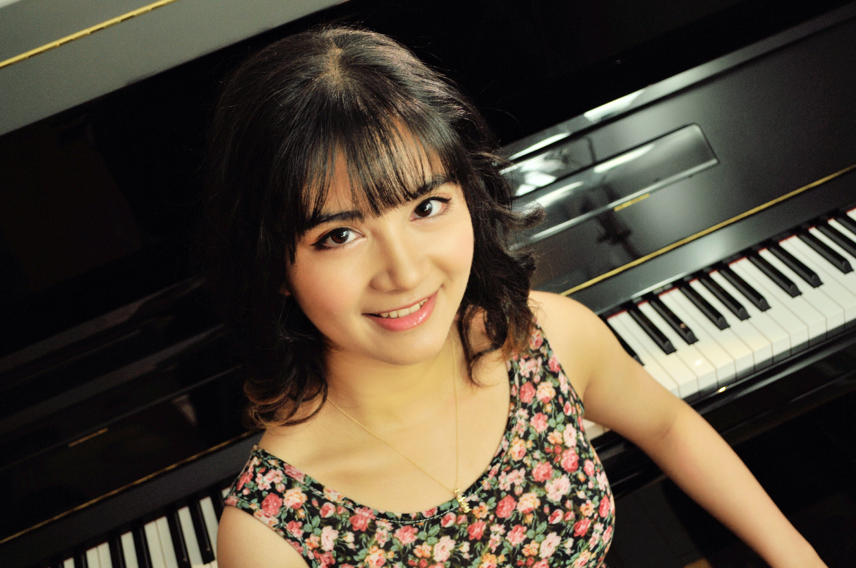 Photograph of pianist Nadia Azzi taken by me (15 April 2015)